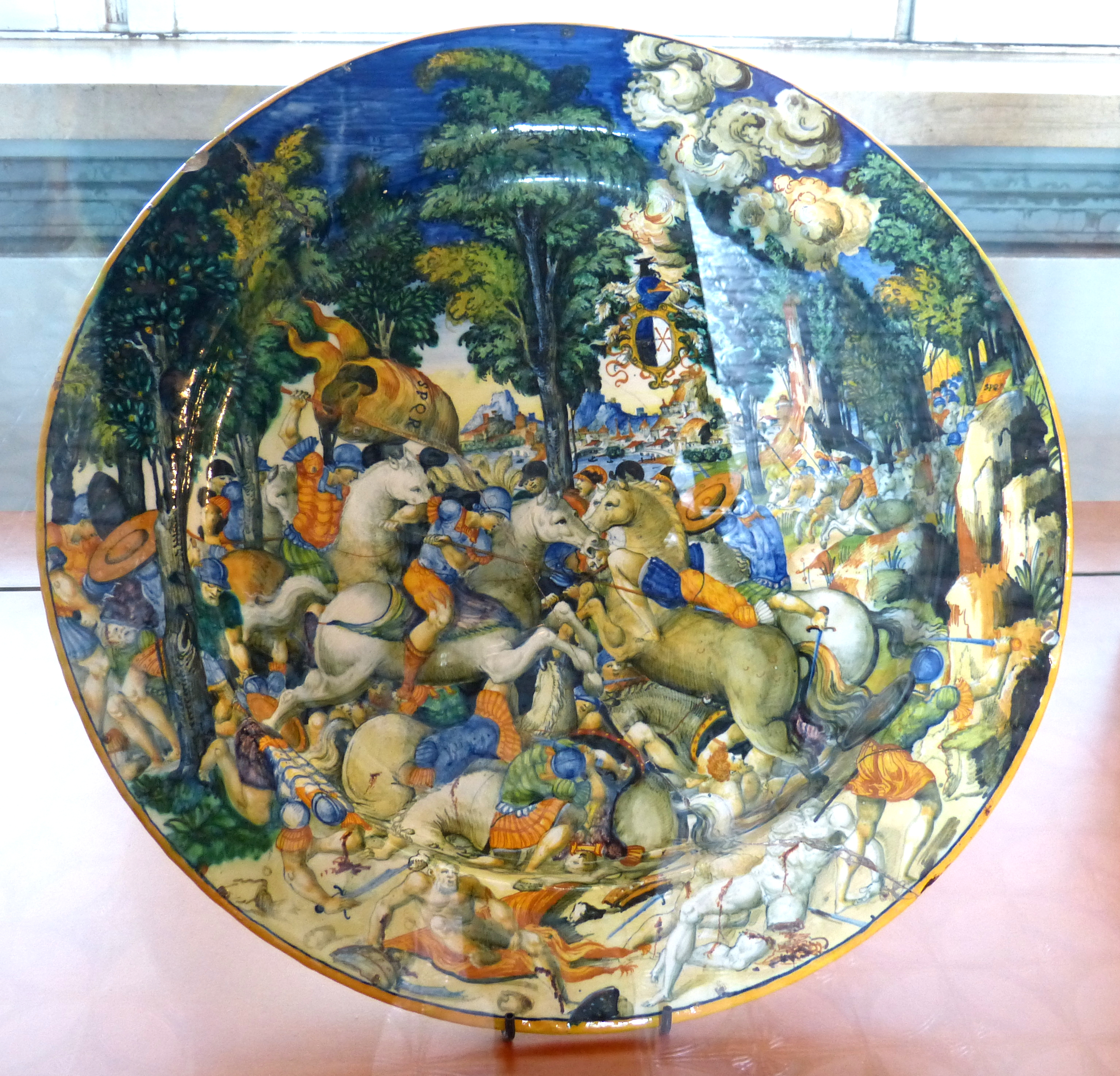 Güstrow ( Mecklenburg-Vorpommern ). Castle museum: Majolica bowl ( Urbino, 1544 ), showing the victory of Silanus over Hasdrubal, from the workshop of Guido da Merlino, painted by Francesco Durantino.